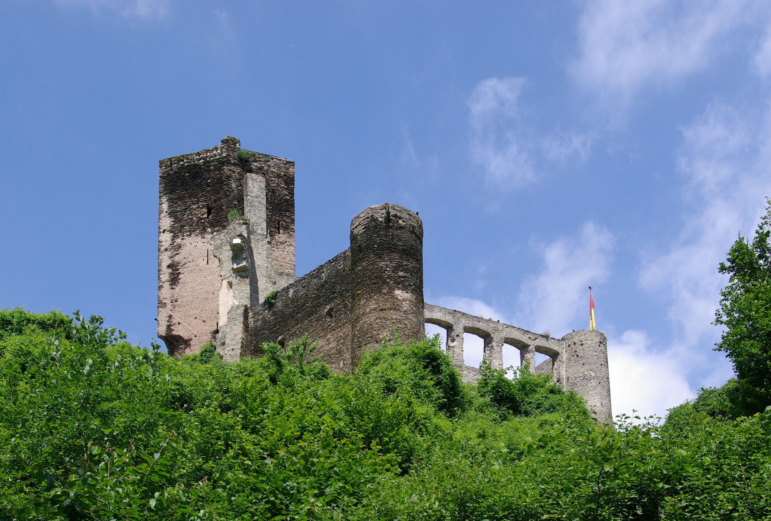 Germany, Metternich Castle at the river Mosel